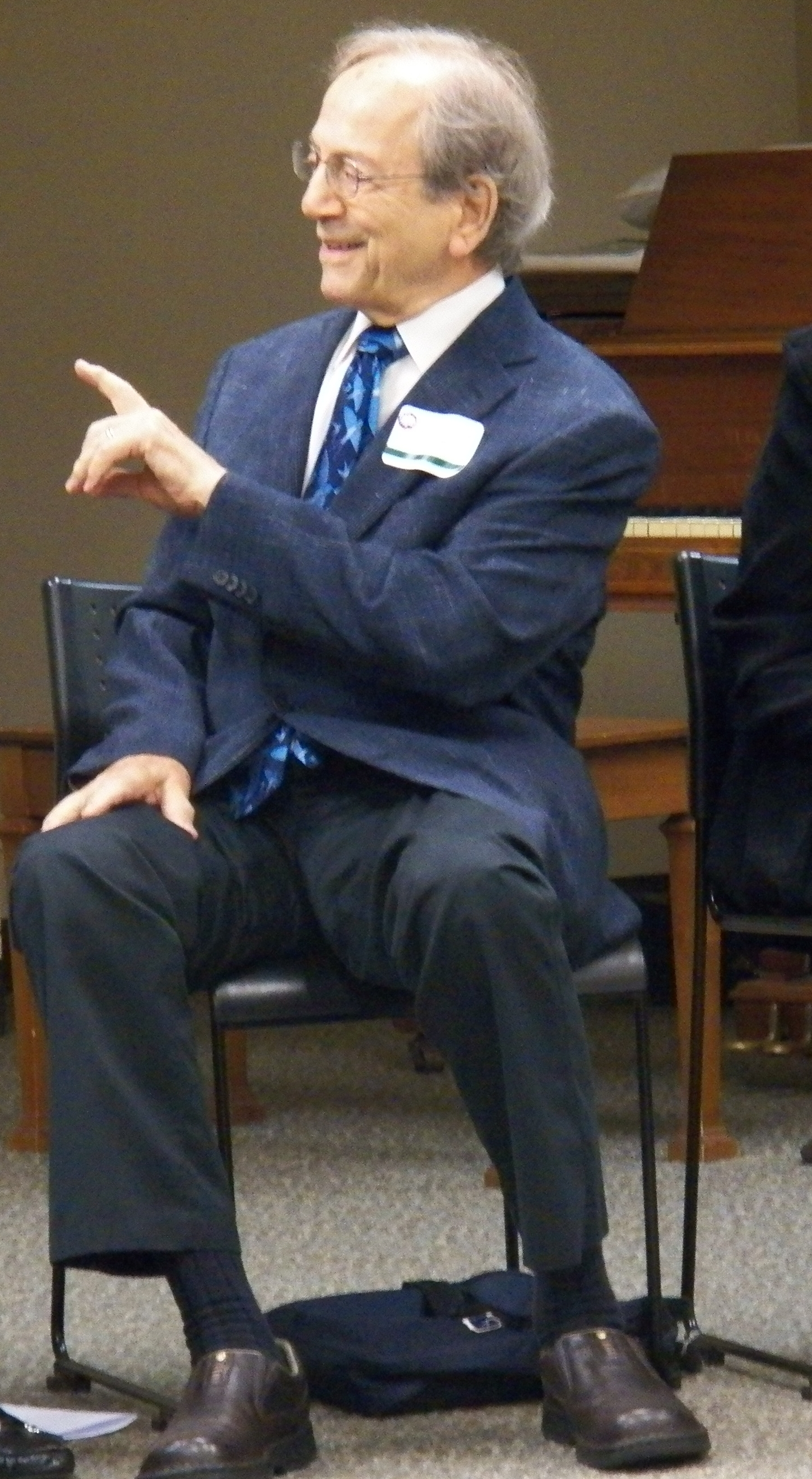 Donald Levine participating in a panel discussion at Shimer College on the occasion of the inauguration of his former student, Susan Henking, as the school's 14th president.